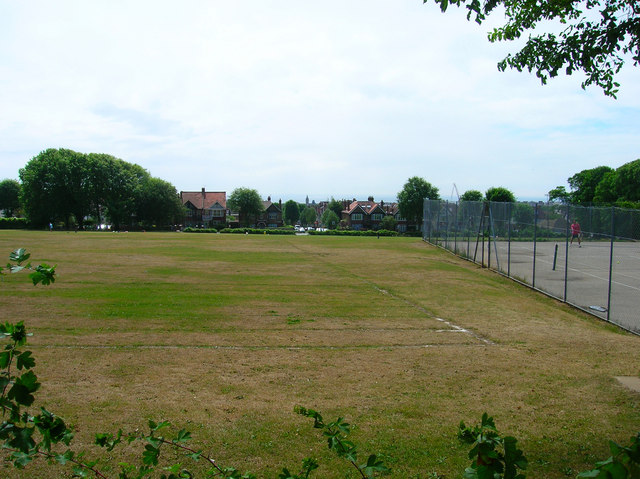 Bhasvic Playing Fields. Bhasvic is the general term used for Brighton and Hove Sixth Form College. Although primarily a private facility, ease of access means many others use the fields too. At present there is talk of selling part of the fields for housing.